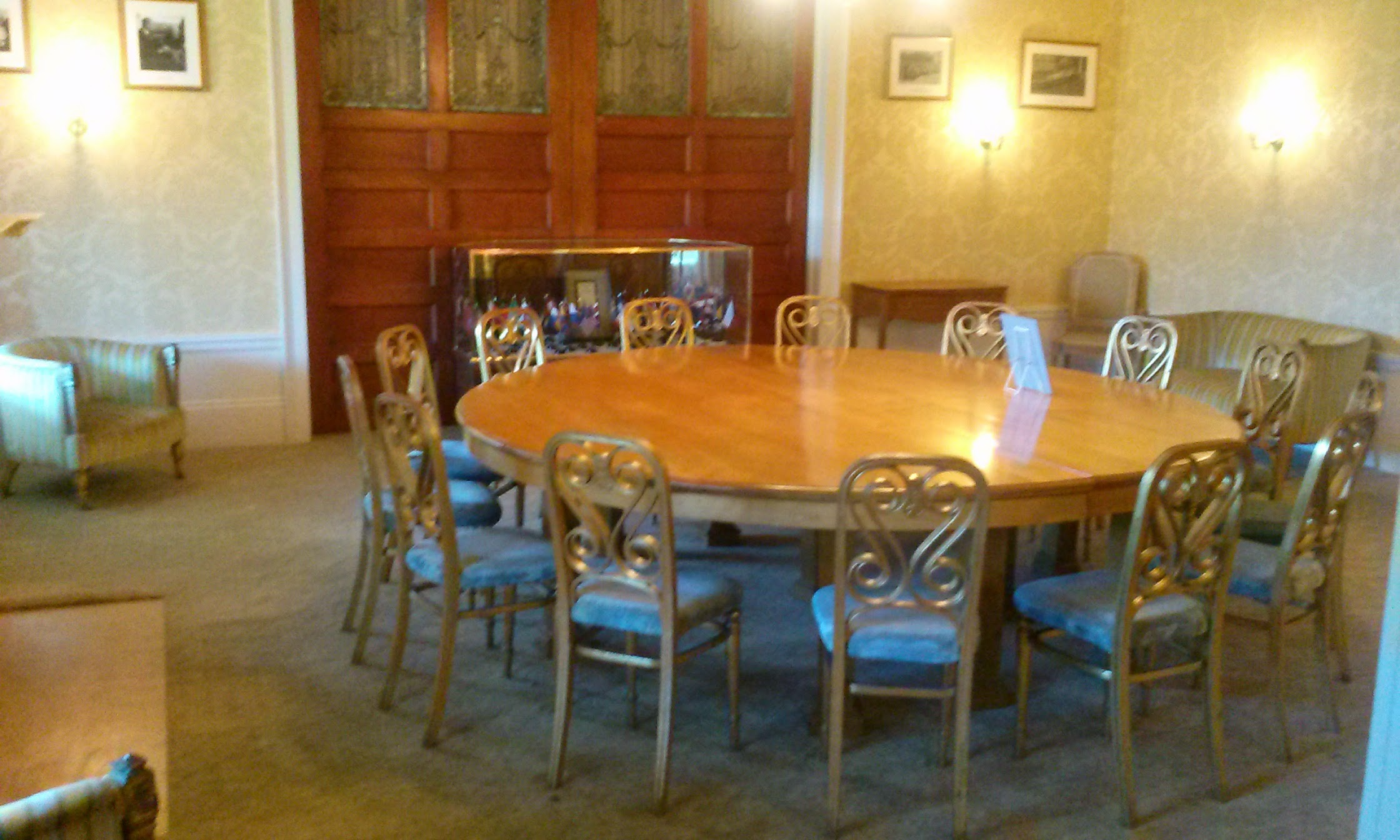 This small room within the Mount Washington Hotel is where the historic agreements were signed establishing the International Monetary Fund and World Bank in 1944.